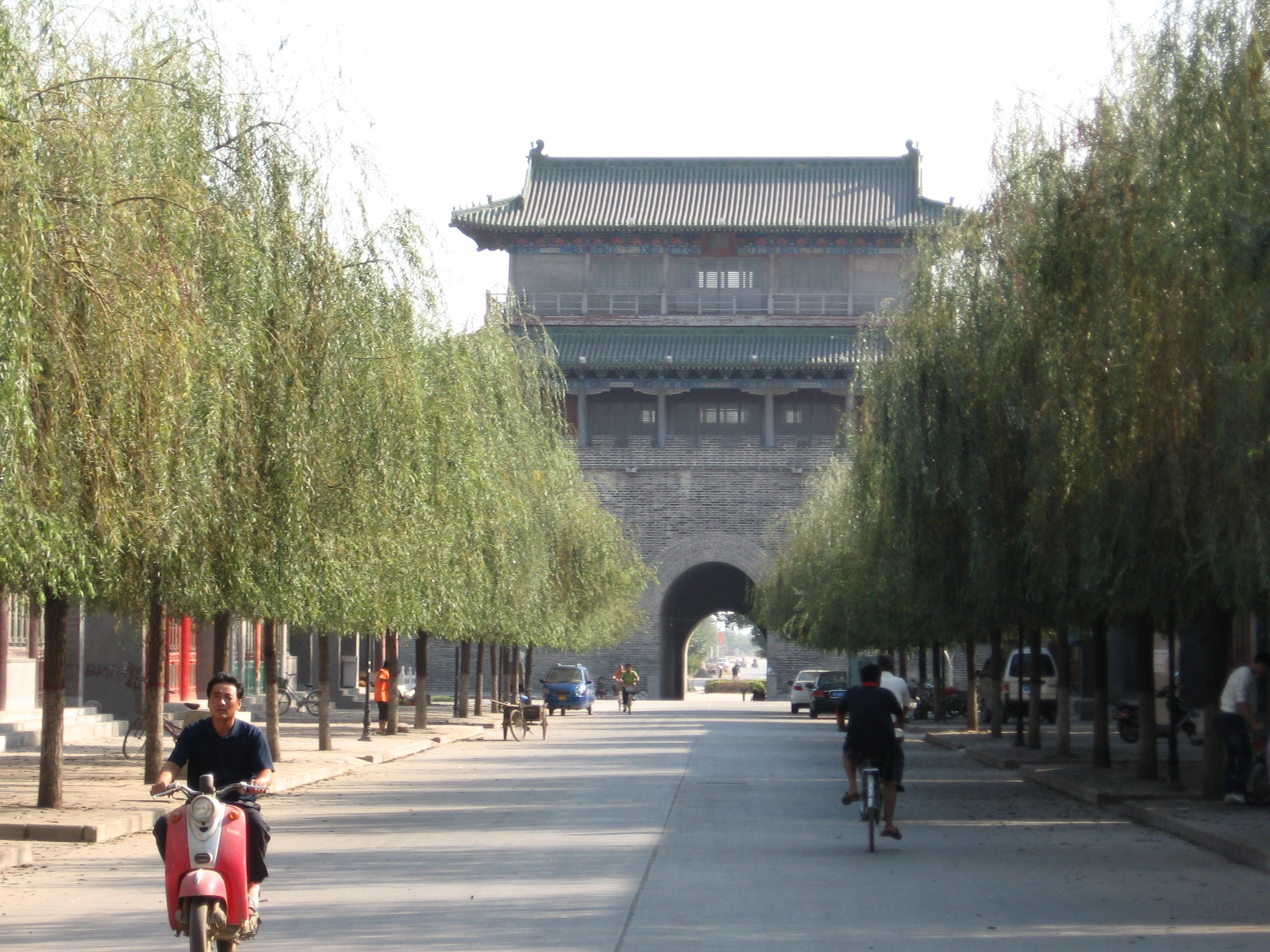 Inside the southern gate of Zhengding Hebei,China.中国河北省正定县南城门（长乐门）内，原正定府南城门。